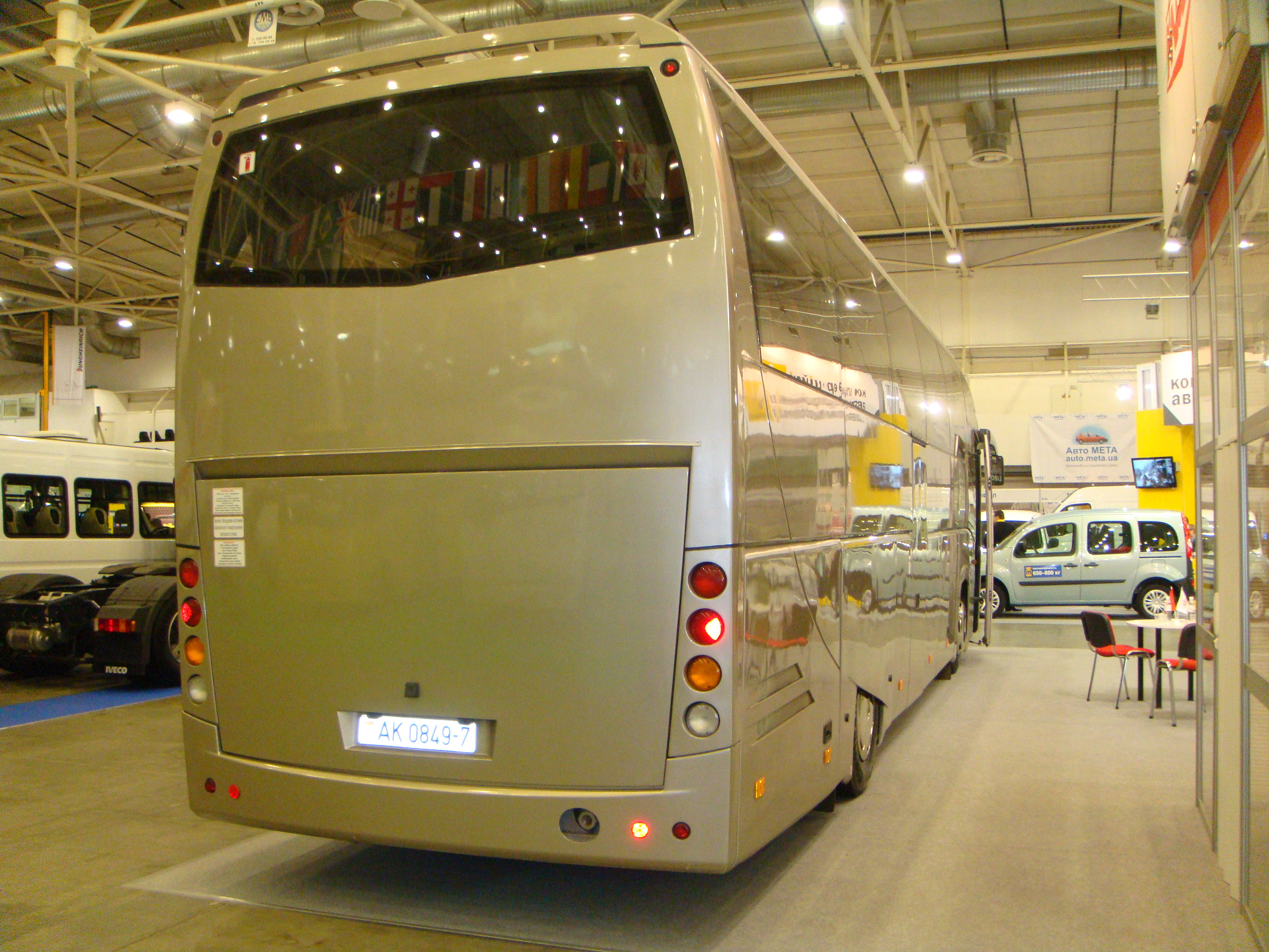 MAZ 251.050 coach in Kiev, Ukraine. Rear view. TIR 2010.